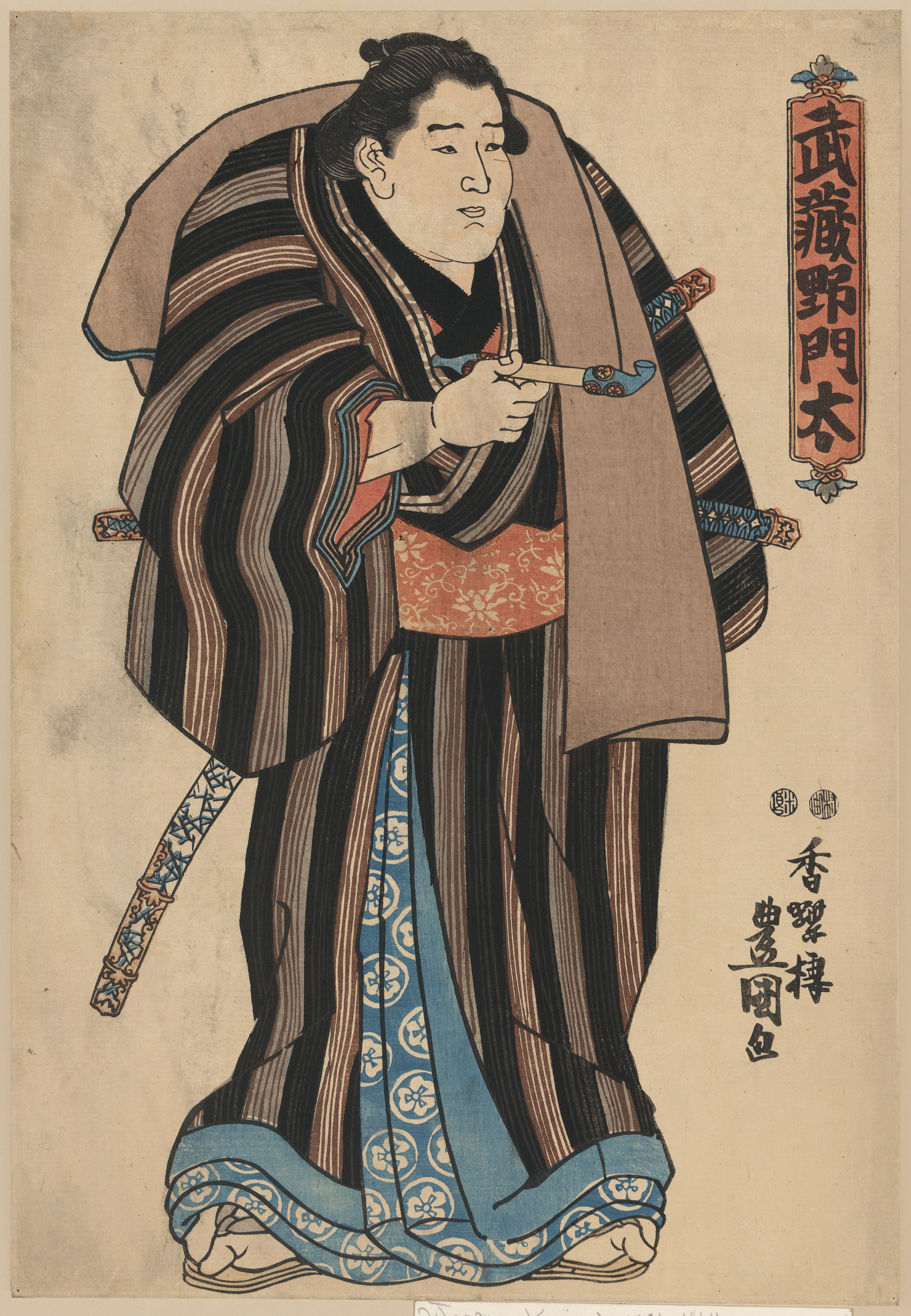 Sumo wrestler Musashino Monta (1810-1861)